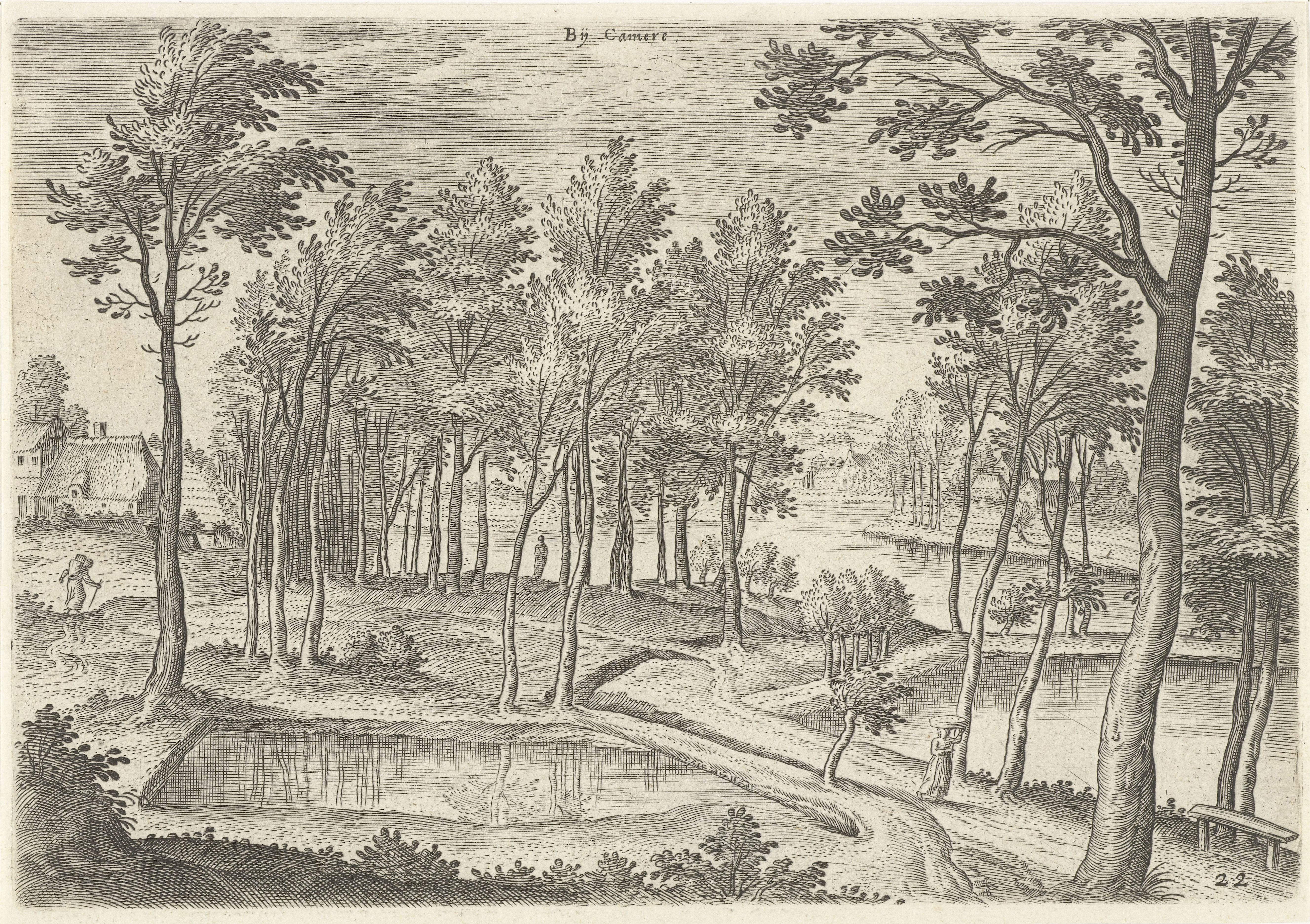 Etching by Hans Collaert (I) after Hans Bol-Jacob Grimmer, from a series of 24 views of Brussels and surroundings, published by Claes Jansz. Visscher (II) in the 16th century.